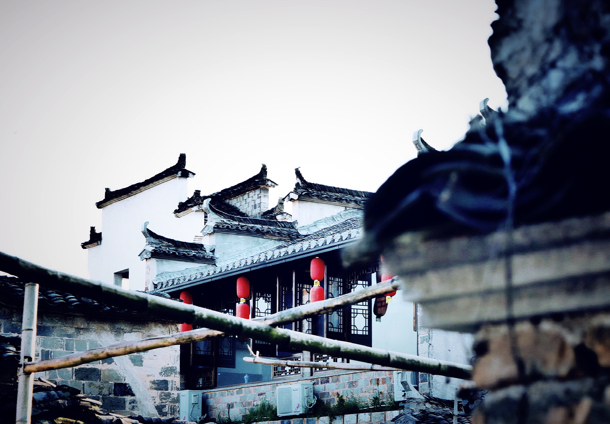 500px provided description: Structure Hui [#sky ,#water ,#travel ,#architecture ,#bridge ,#bamboo ,#wall ,#windows ,#military ,#vehicle ,#lantern ,#structure ,#classical ,#watercraft ,#no person ,#ANHUI ,#trandition]